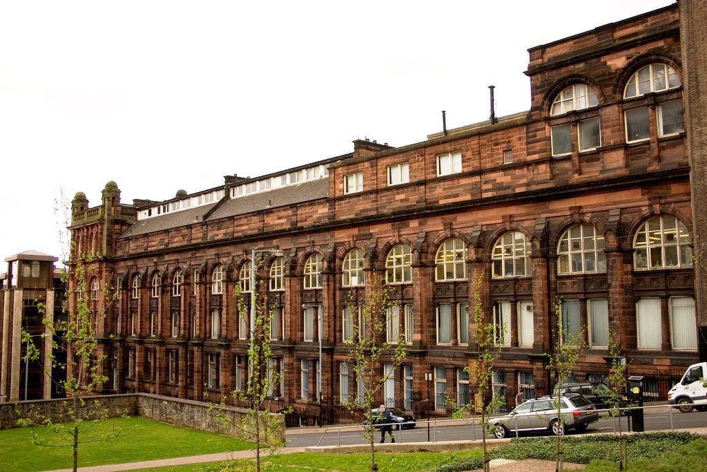 The Royal College building of the University of Strathclyde in Glasgow.